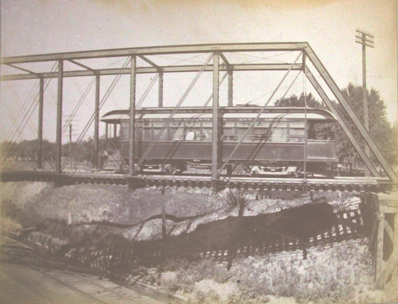 The original photo shows only what is visible here: i.e., only part of the bridge. Railroad tracks are visible below.